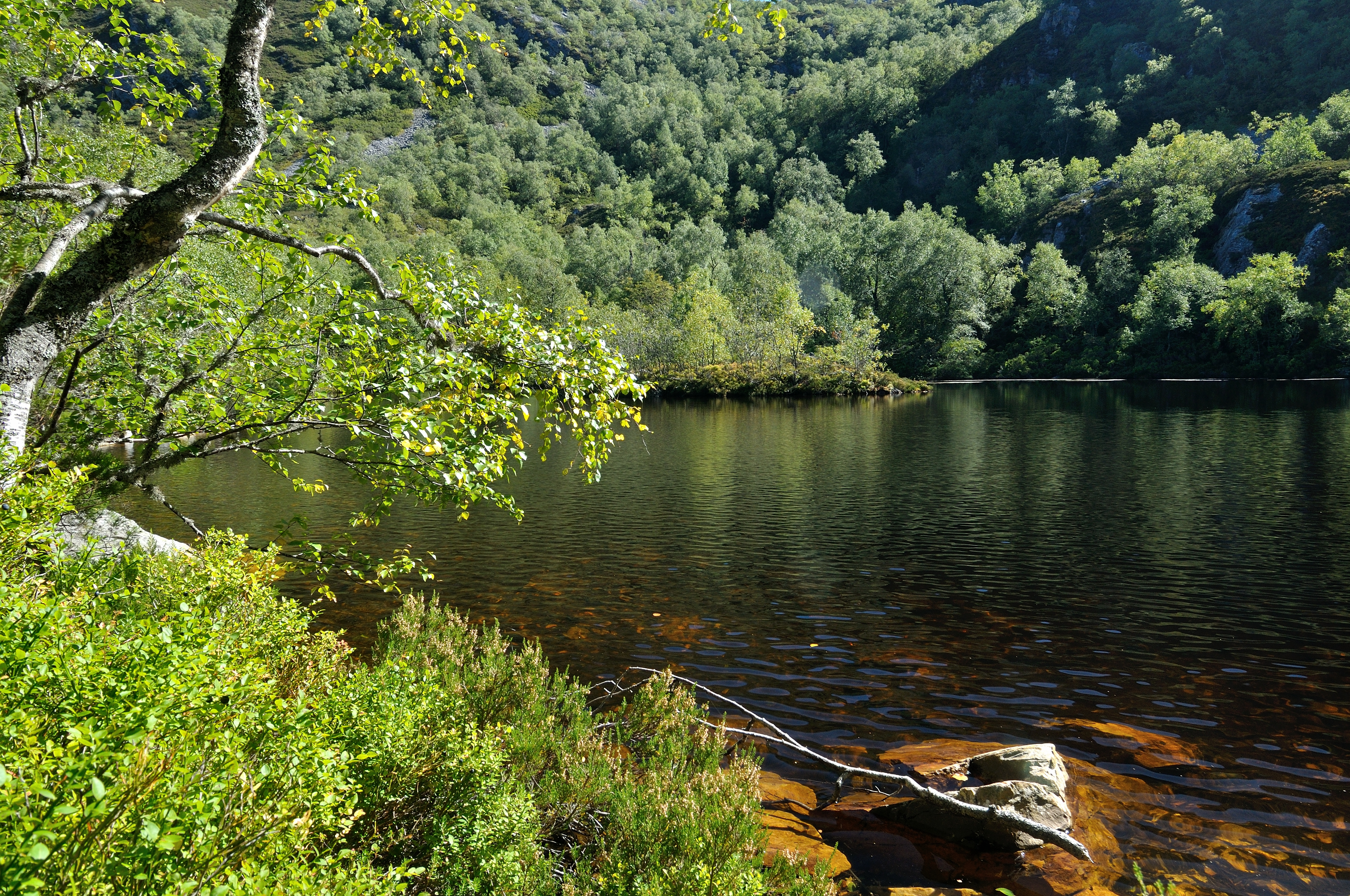 Biosphere reserve of Muniellos, in Cangas del Narcea, in Asturias, Spain.